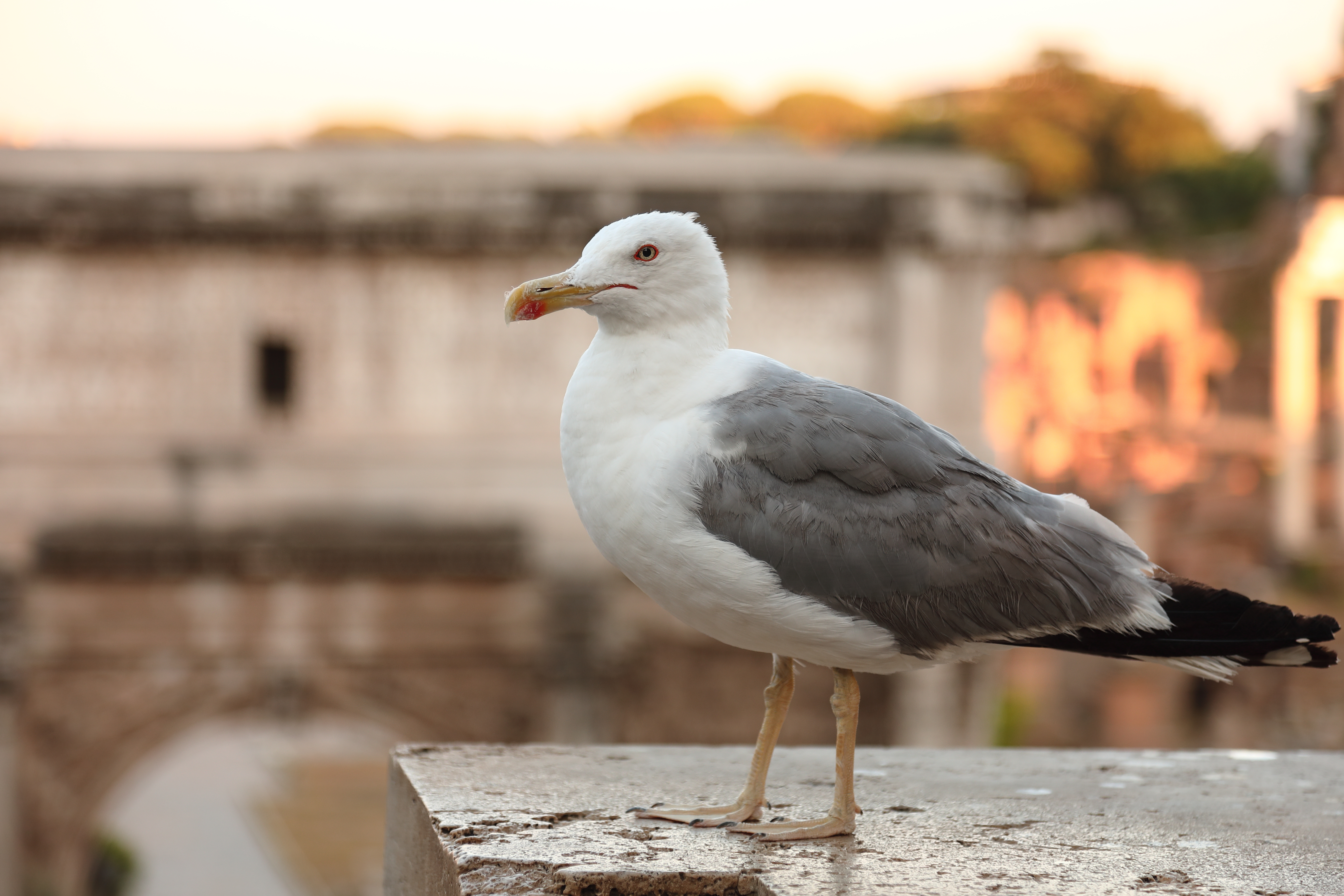 Yellow-legged Gull rests in Rome near by Campidoglio, with the Arch of Septimus Severus and the fora in the background. The gulls accomodated to the urban environment.